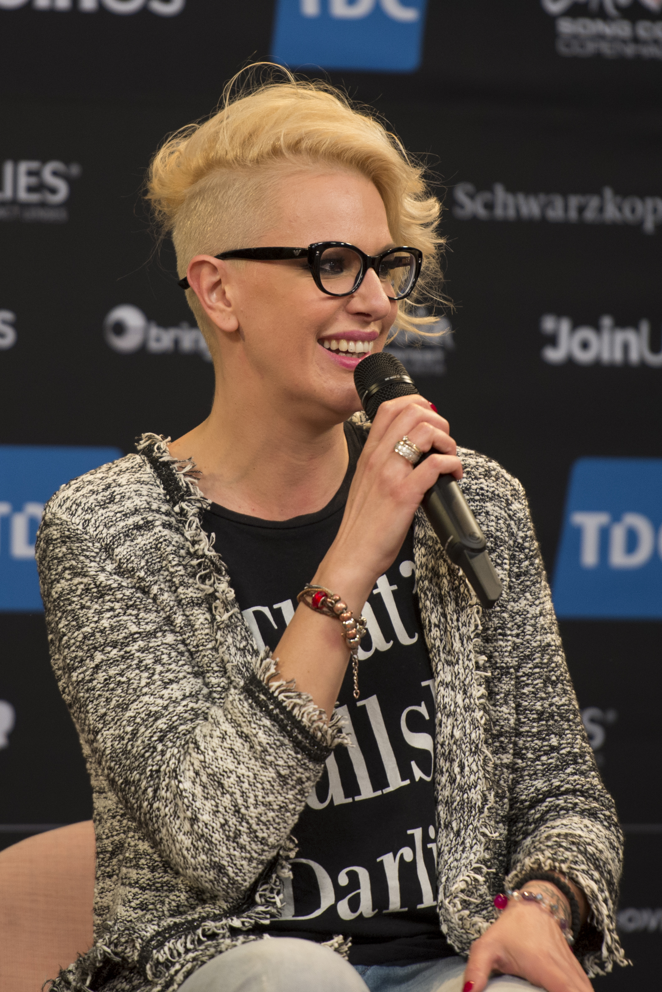 Tijana Todevska-Dapčević at a Meet & Greet during the Eurovision Song Contest 2014 Copenhagen. (Help translate this text)